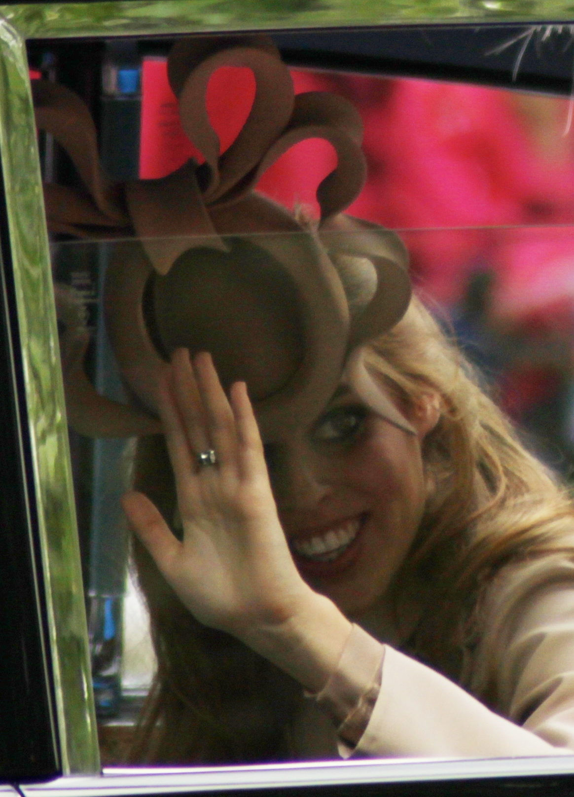 Princess' Beatrice and Eugenie on the way to William's wedding